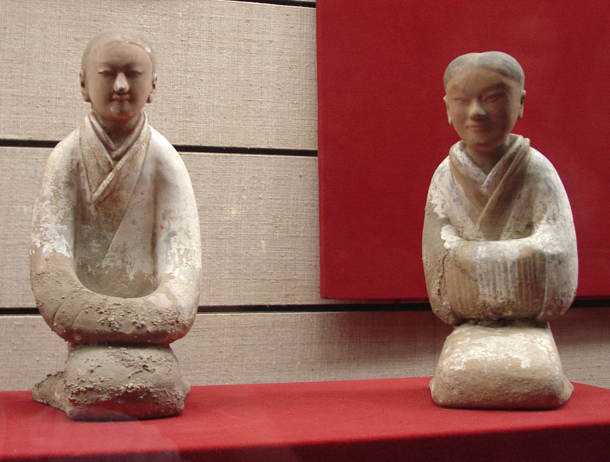 Female Attendants. Western Han dynasty. Shaanxi History Museum, Xi'an These two attendants were excavated from the tomb of Queen Dou. They kneel patiently and attentively, hands concealed in their overlapping sleeves, as if awaiting orders.